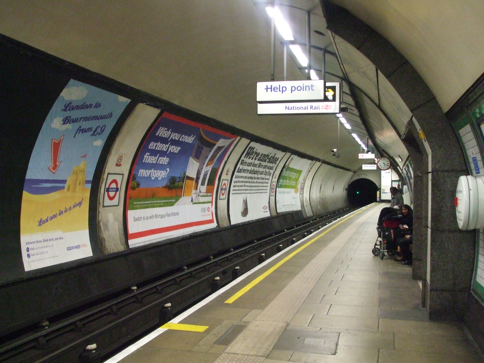 Looking north along Balham tube station northbound Northern line platform.